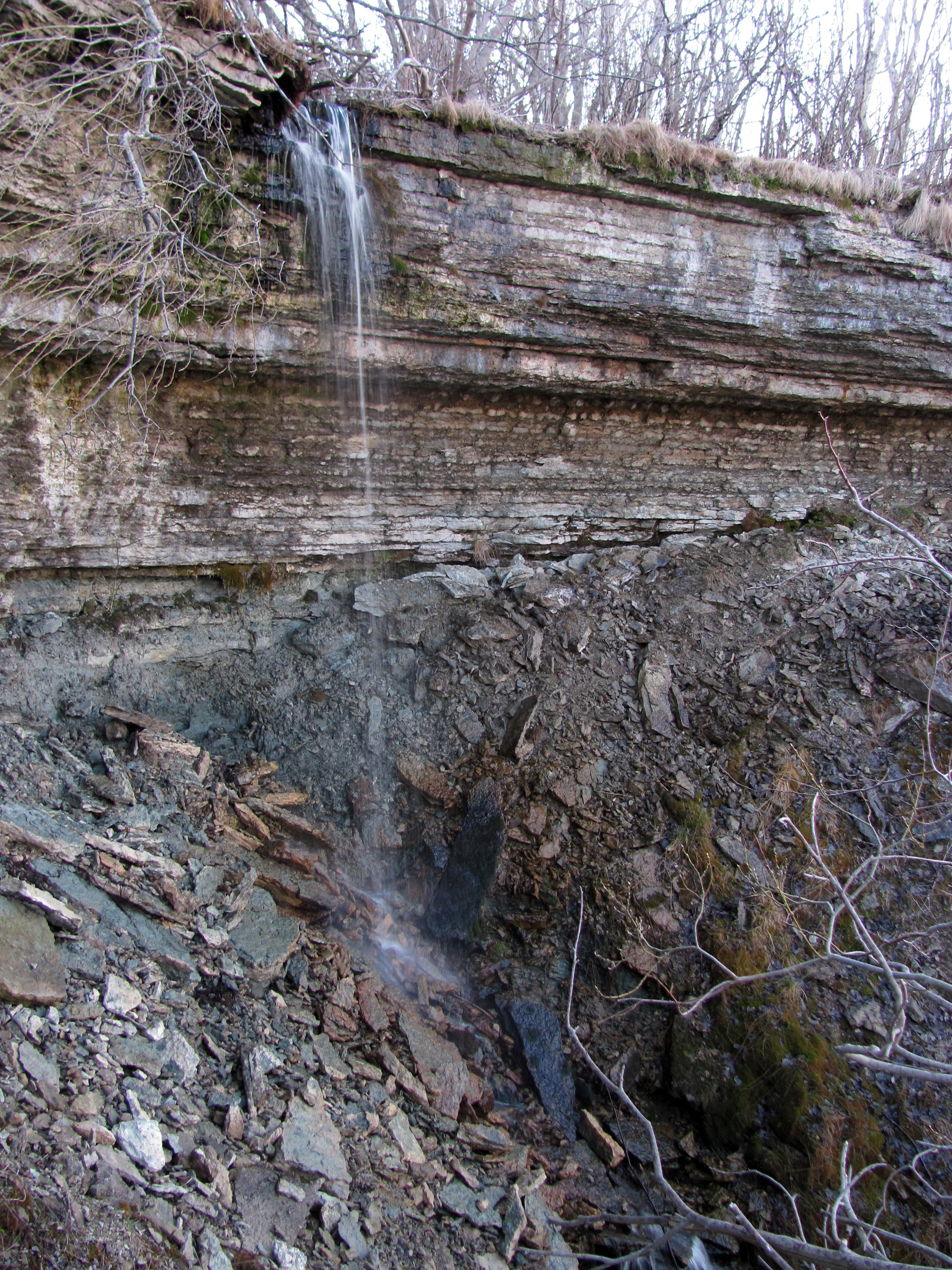 Pakri waterfall, Pakri peninsula, Estonia